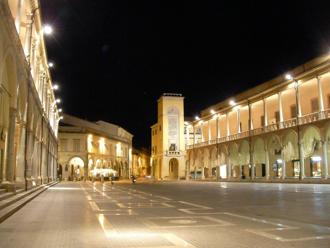 Piazza del Popolo of Faenza at night